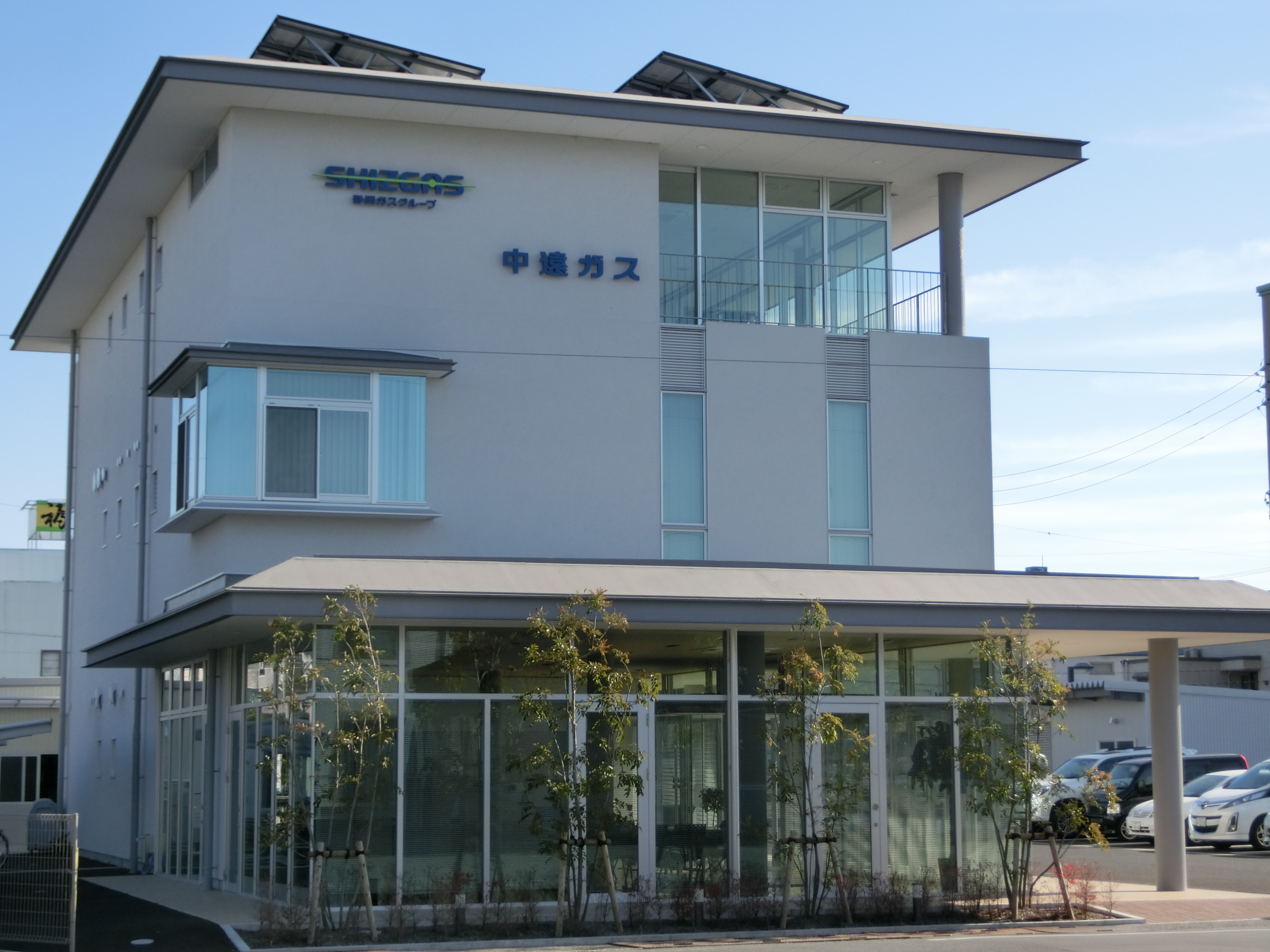 Chuen Gas Head Office